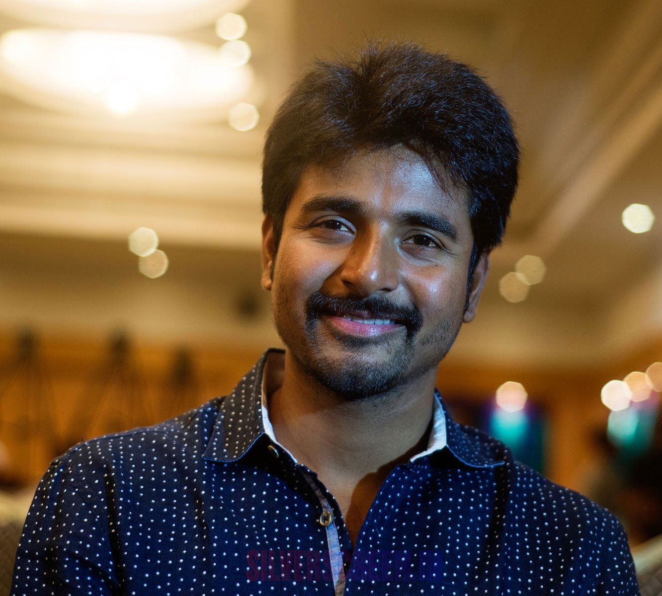 Sivakarthikeyan at Maan Karate Success Meet